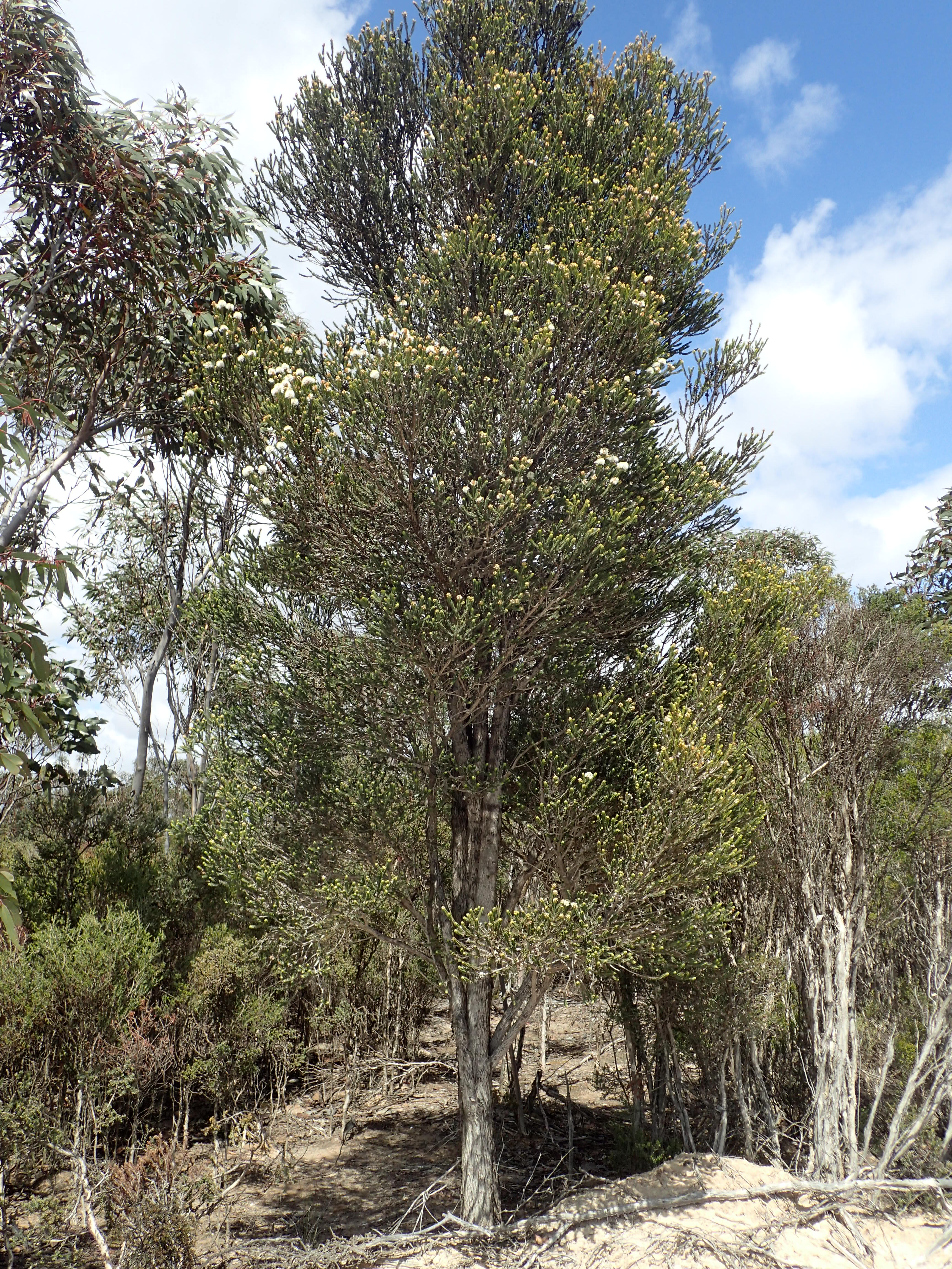 Melaleuca linguiformis growing near Norwood Road in the Wittenoom Hills, northeast of Esperance, W.A.